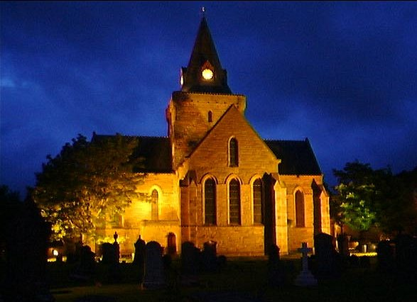 Dornoch Cathedral, Dornoch, Sutherland, Scotland, floodlit at night